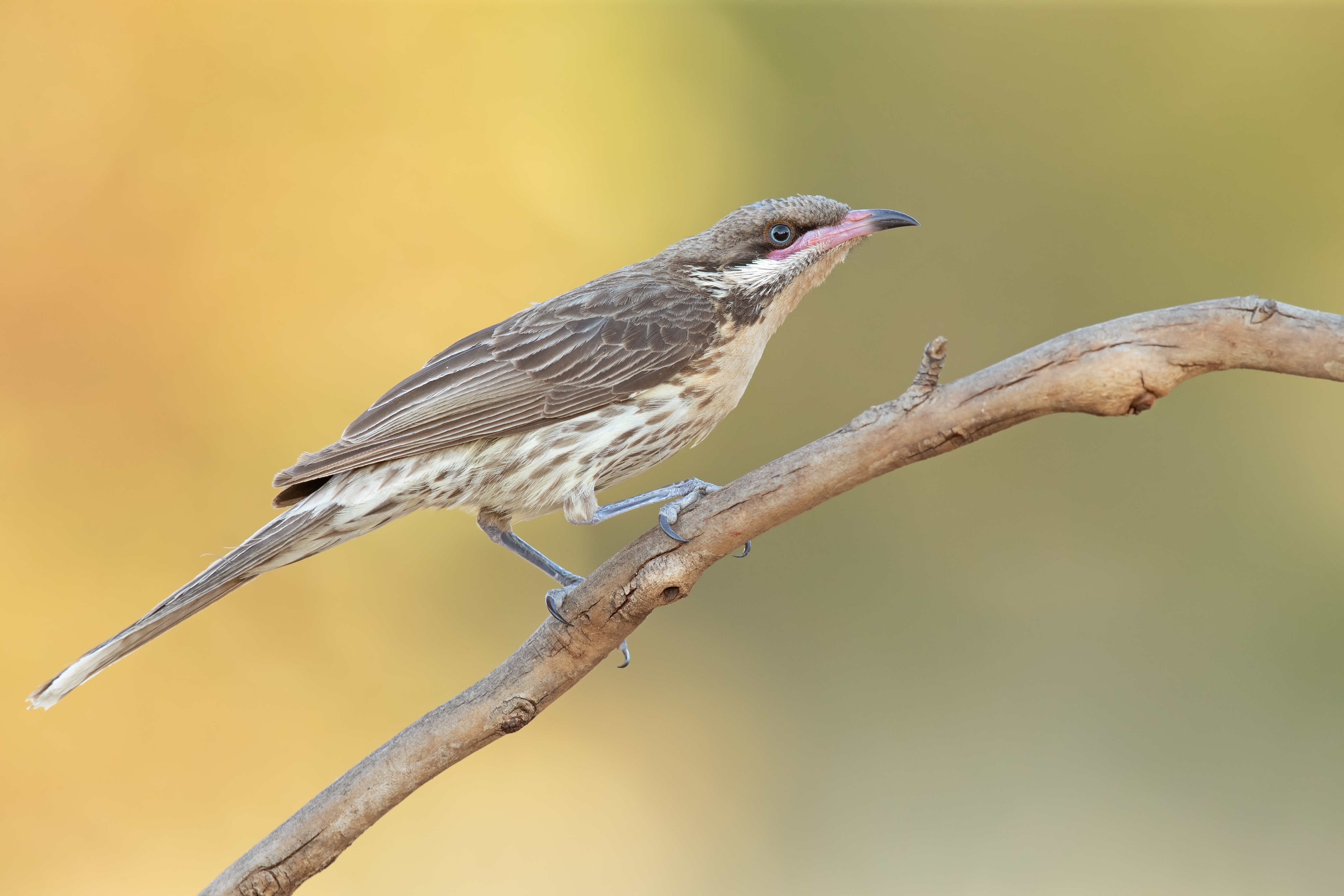 Spiny-cheeked Honeyeater (Acanthagenys rufogularis), Patchewollock Conservation Reserve, Victoria, Australia